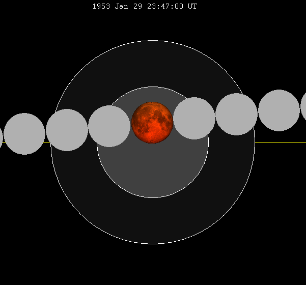 January 1953 lunar eclipse chart of moon's path through the earth's shadow. thumb